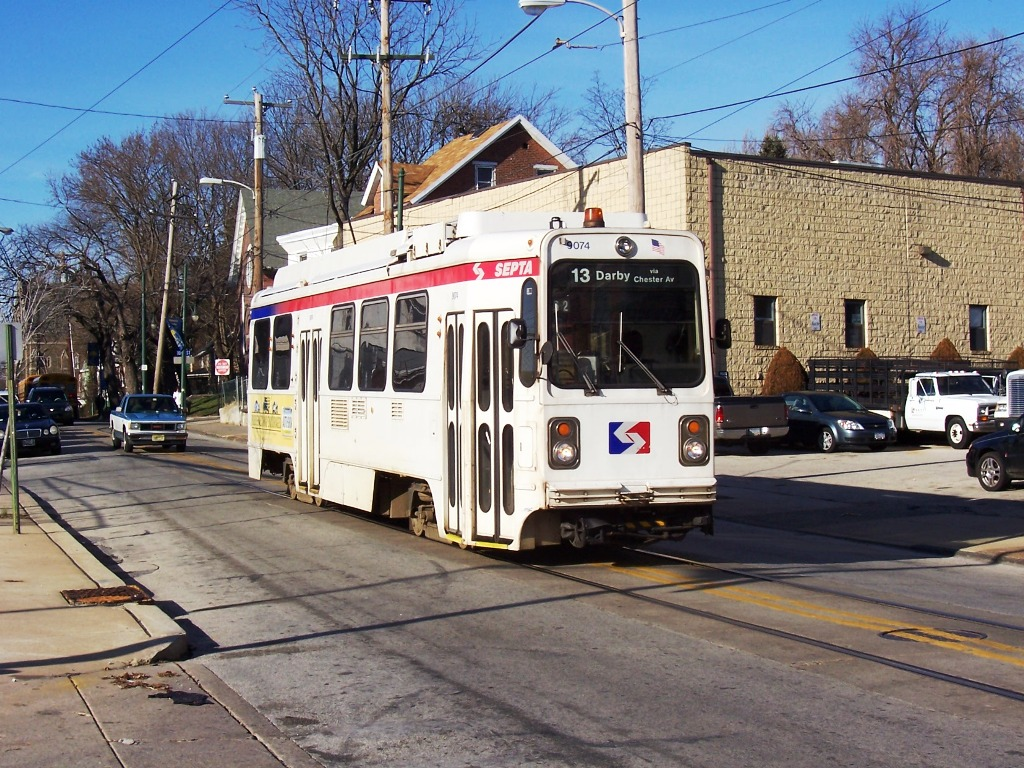 SEPTA K-Car 9074 travels down Main Street in Darby, PA on the 13.